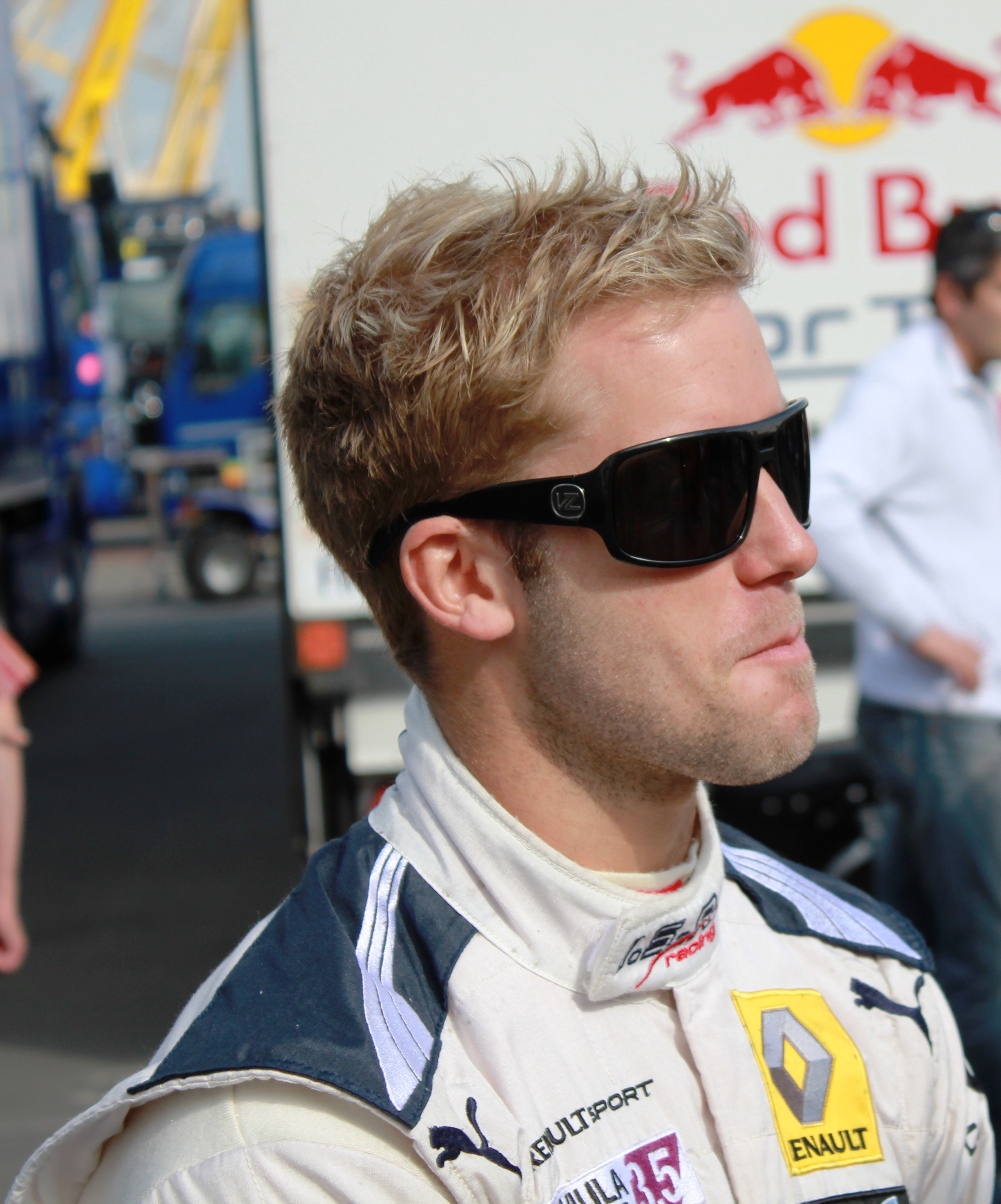 Sam Bird at the 2012 Nürburgring World series by Renault round